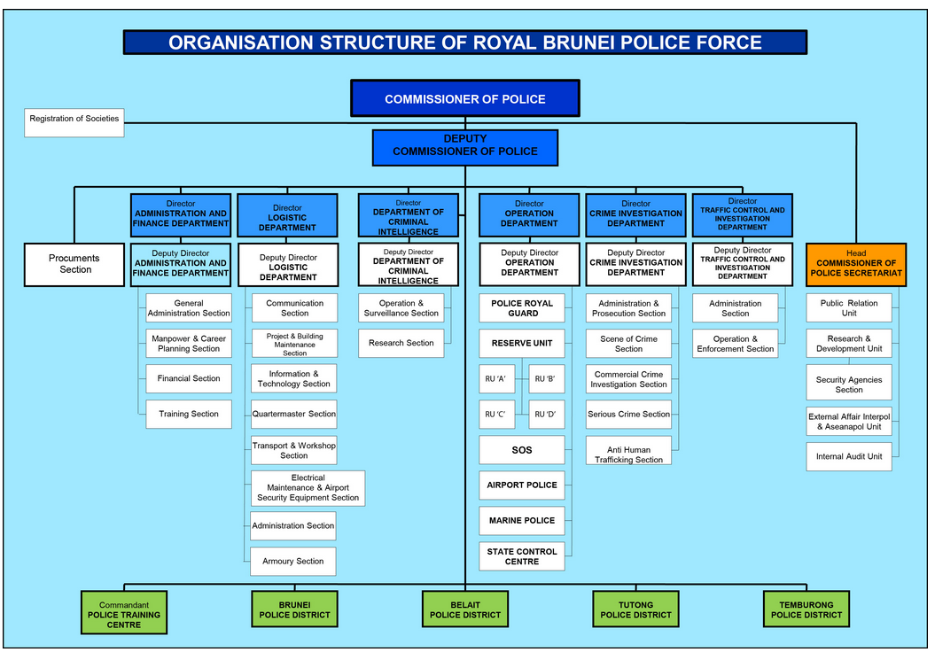 Ini adalah Struktur Angkatan Kepolisian Brunei Darussalam